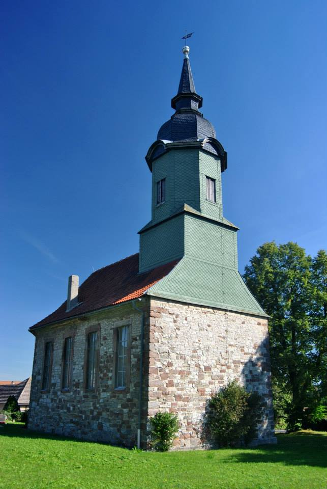 Dorfkirche in Mennewitz, Vorderseite